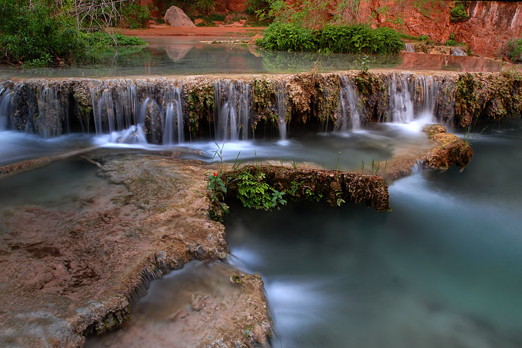 Travertine Terraces in Havasupai, USA.